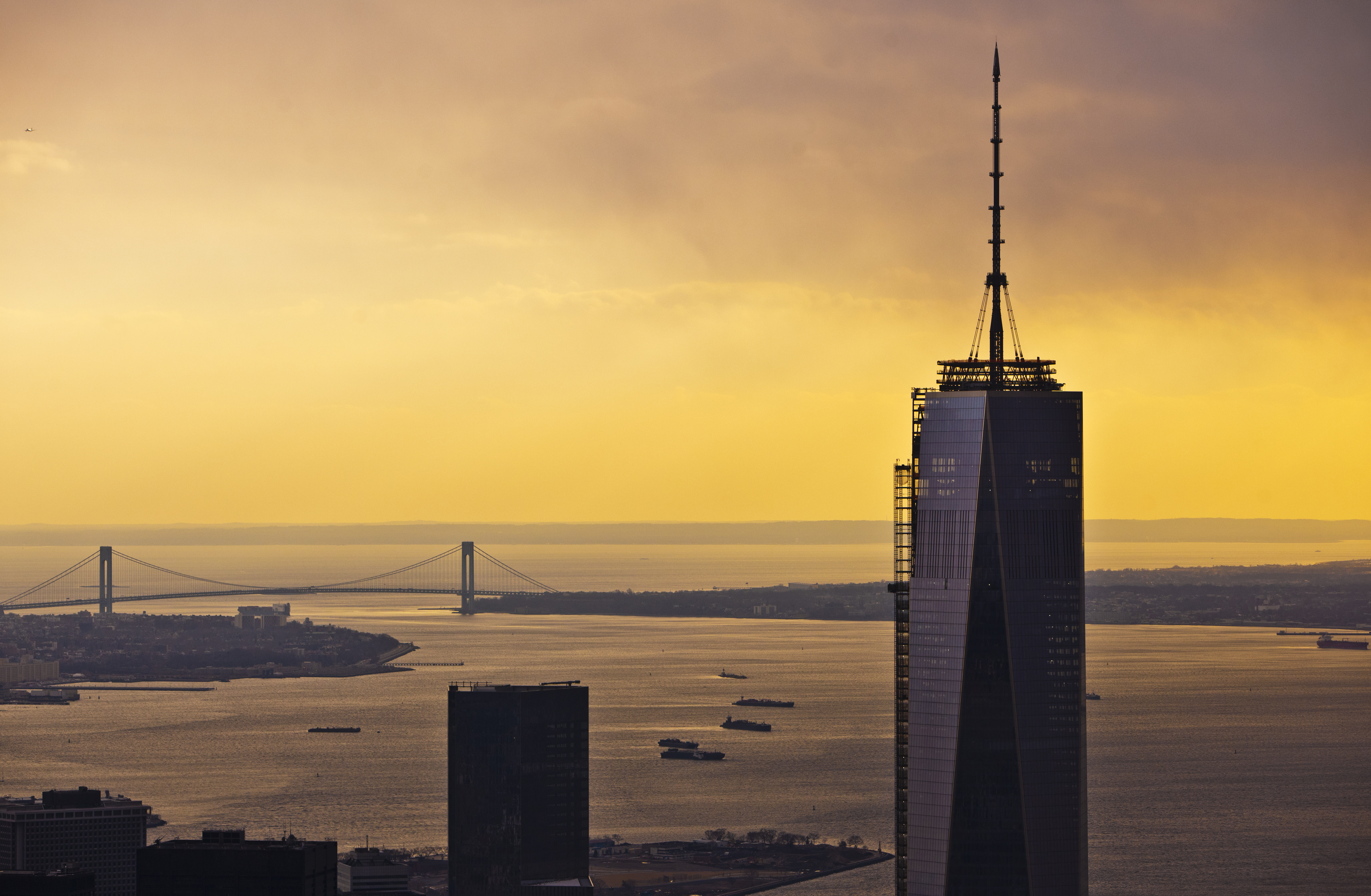 Sunset view of the One World Trade Center, Upper New York Bay, Verrazano-Narrows Bridge, and Staten Island looking south